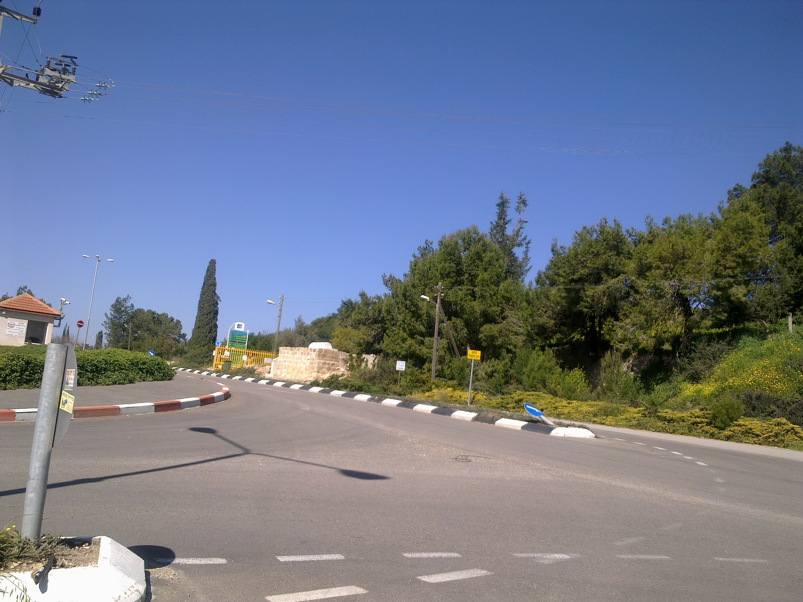 entrance to Beit Haemek הכניסה לבית העמק